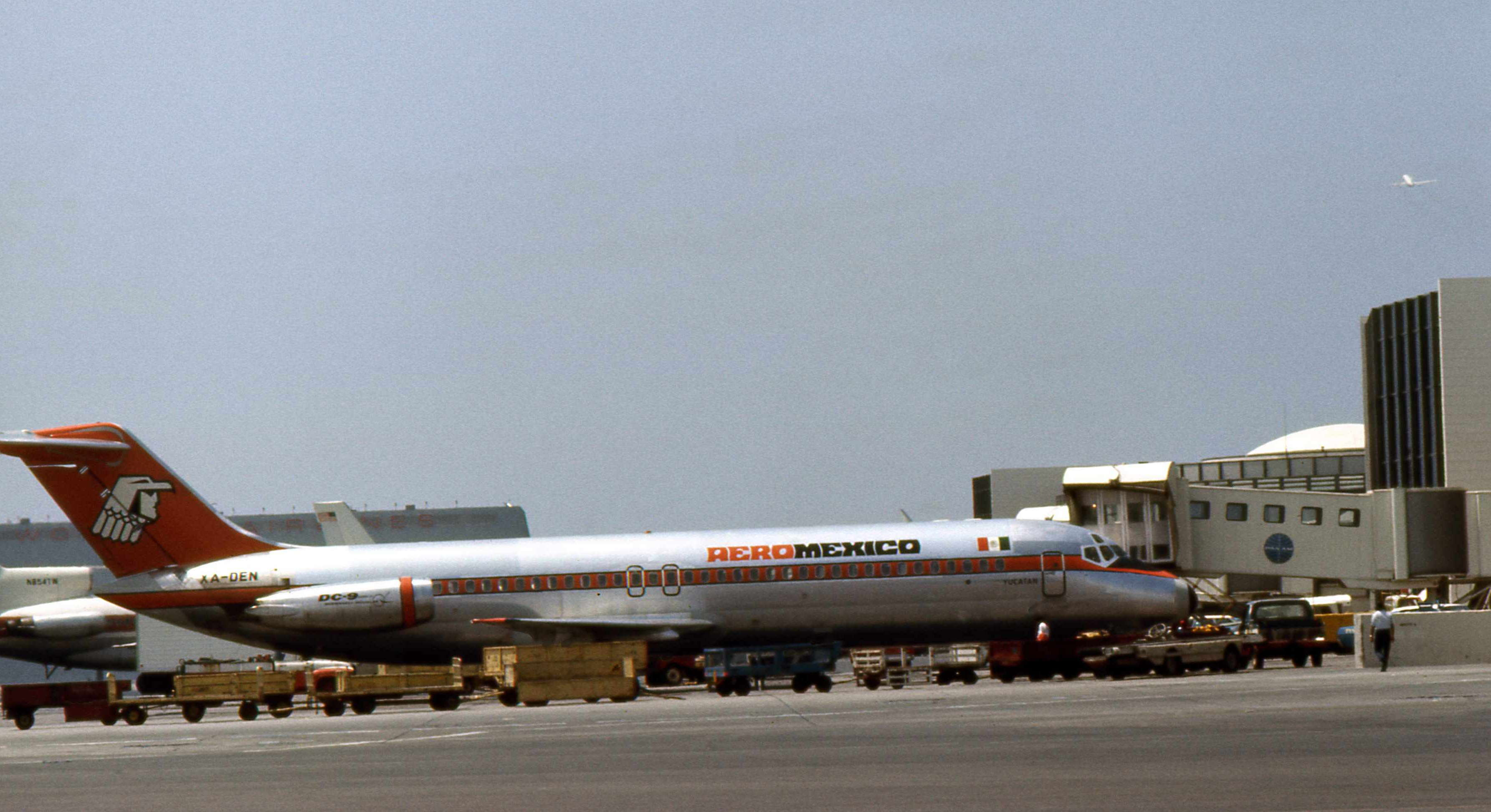 First flight on April 8, 1974 and delivered to Aeroméxico on May 21, 1974. The aircraft on July 27, 1981 landing at Chihuahua General Roberto Fierro Villalobos International Airport, with bad weather conditions, overrun the runway treshold, the fusulage broke and caught fire causing 30 fatalities on 66 occupants.